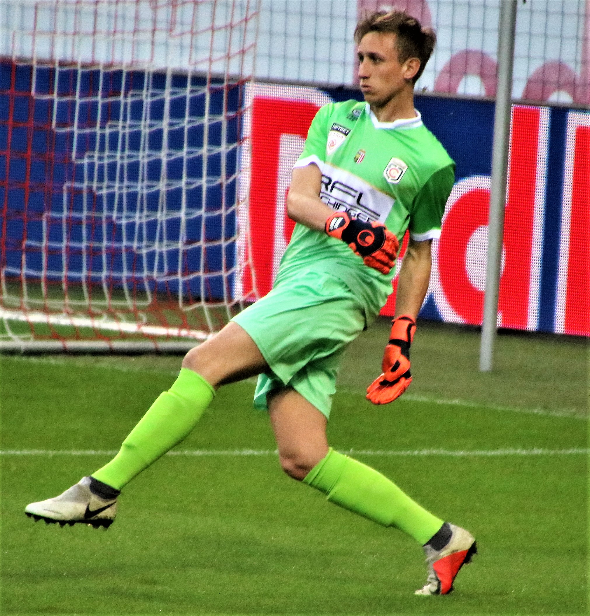 Austria 2nd league